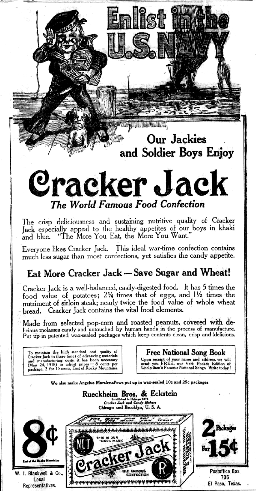 New Mexico newspaper ad for Cracker Jack, urging readers to enlist in the US Navy. Details how eating Cracker Jack saves valuable foodstuff needed for the war effort.